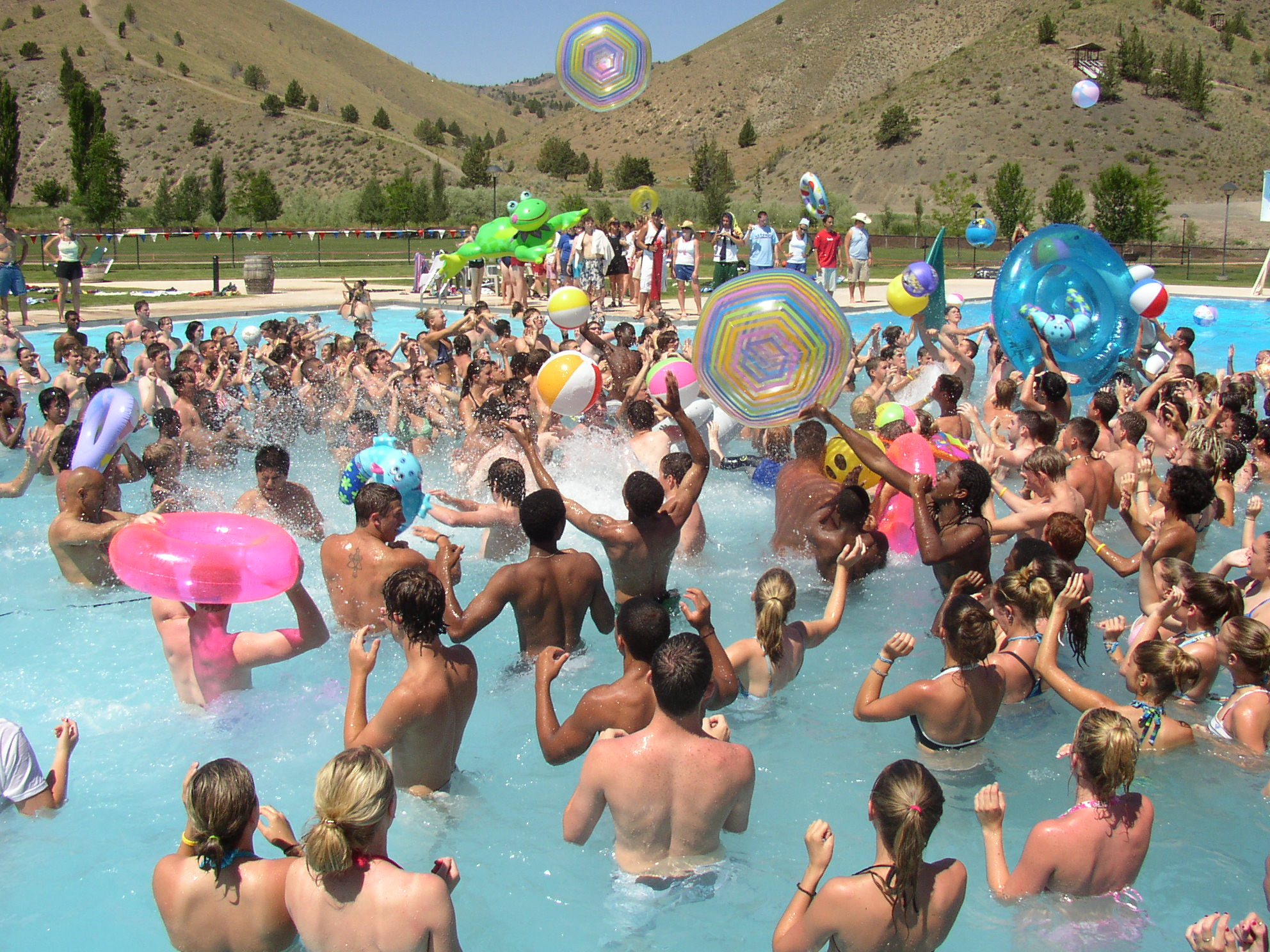 Campers play in the pool at a Young Life camp at Washington Family Ranch in central Oregon.